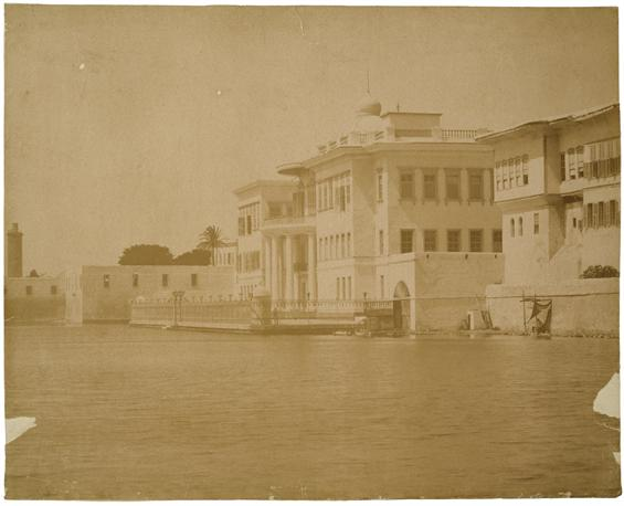 Ras-el-Tin palace and lighthouse, Alexandria, Egypt.